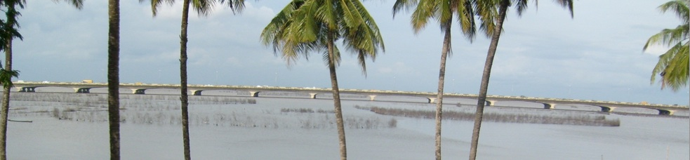 Third Mainland Bridge, Lagos. Personal Photograph. Taken 2007.